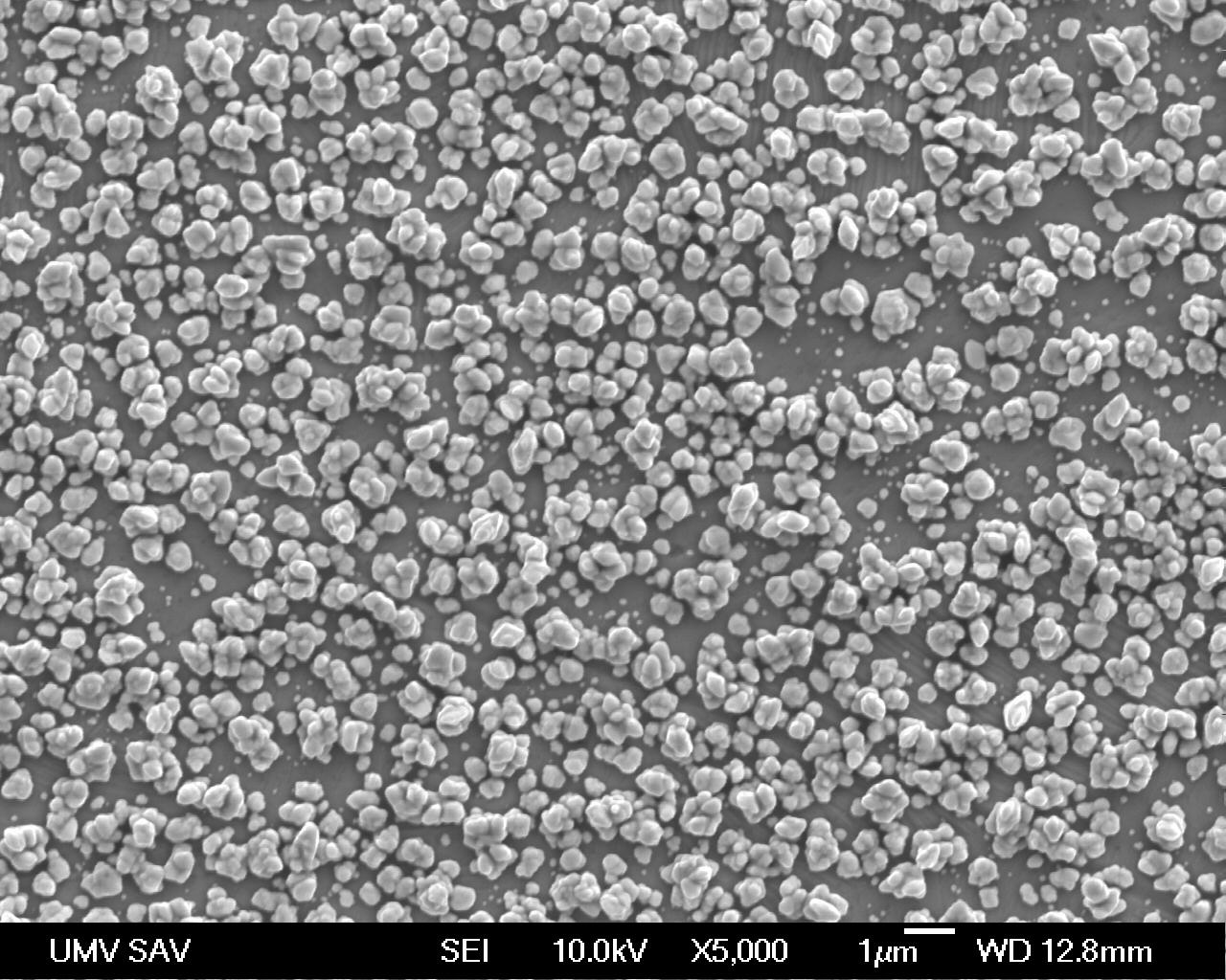 Ag surface